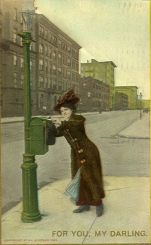 Woman putting a letter in a post box, United States of America. Caption: "FOR YOU, MY DARLING. COPYRIGHT BY A.L. SIMPSON 1909."